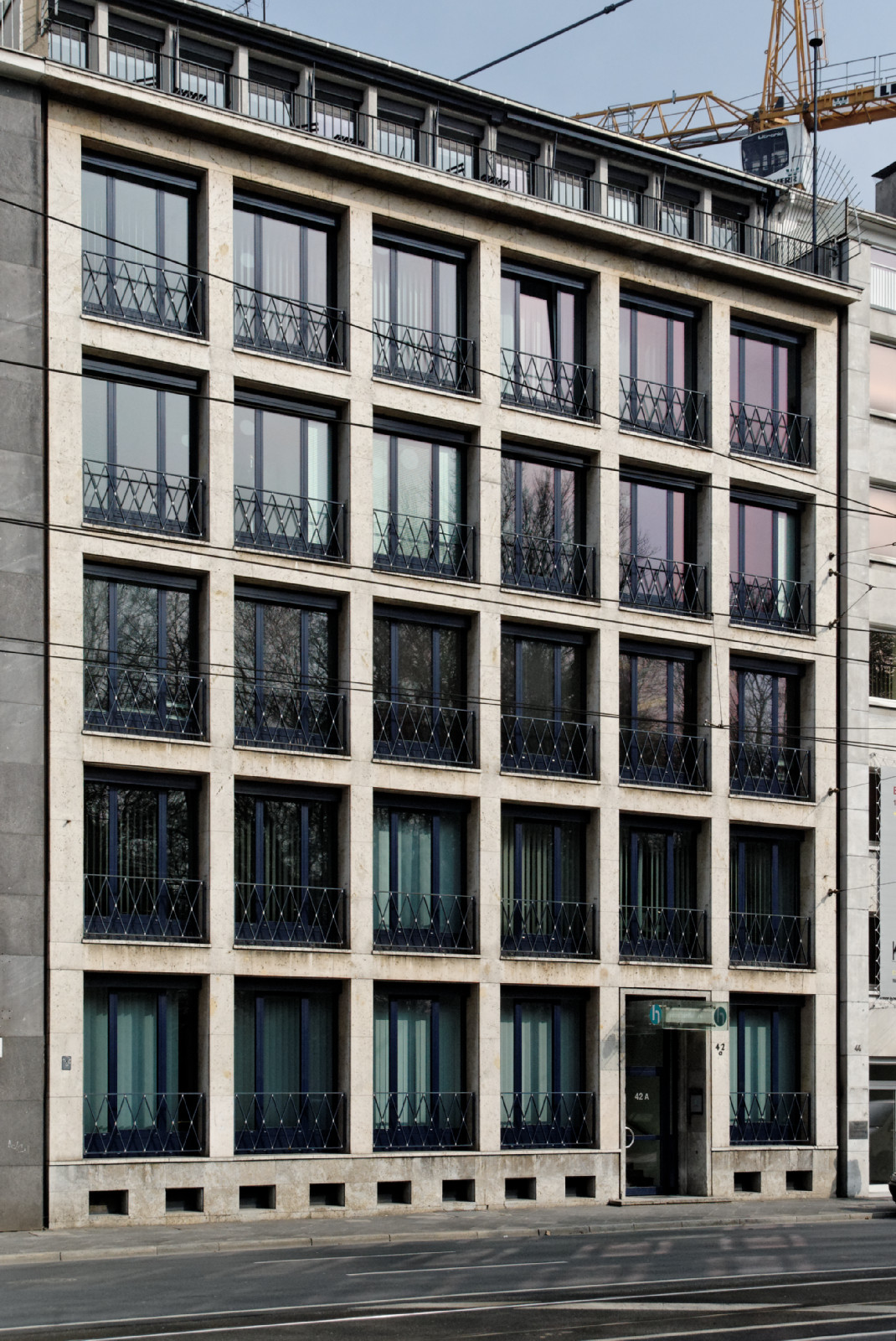 House Kaiserstraße 42 in Düsseldorf-Pempelfort, Germany